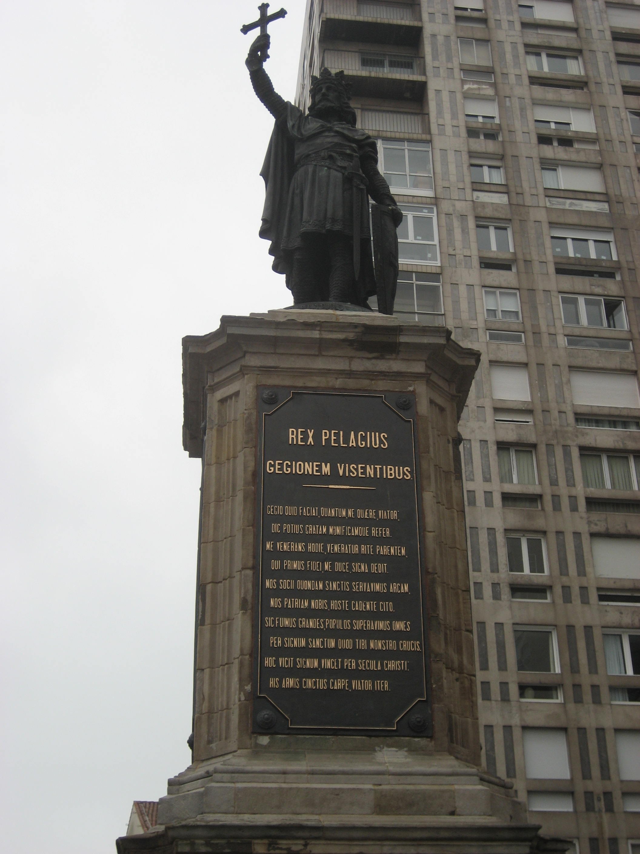 Front View of King Pelayo Statue's pedestal at Marqués Square, Gijón, ES